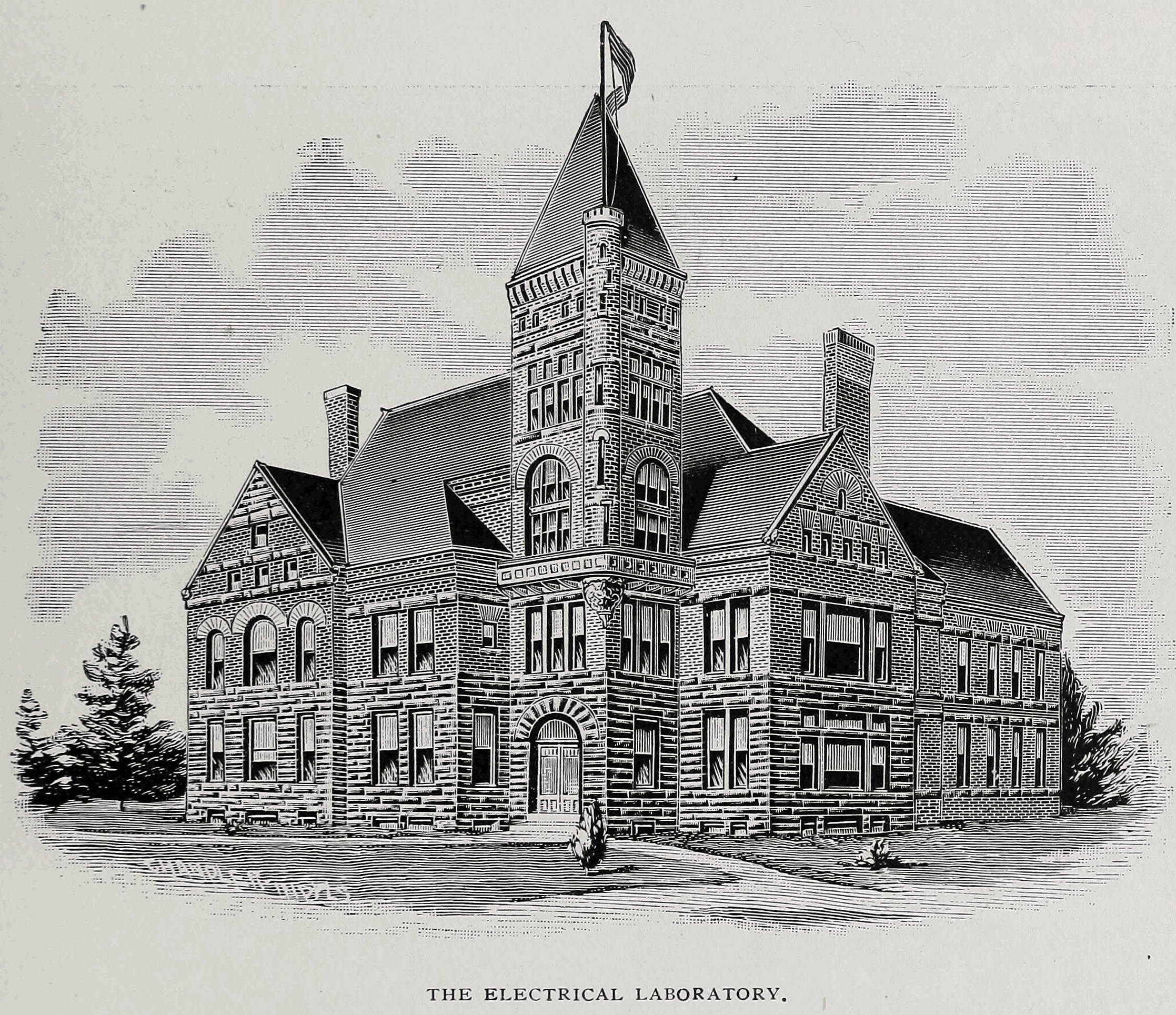 Cassier's Magazine of August 1892 had an article on page 248-260, in its series Technical Schools of America, describing the Purdue University. It was accompanied by a number of illustrations, including this, on page 259, showing the Electrical Laboratory.